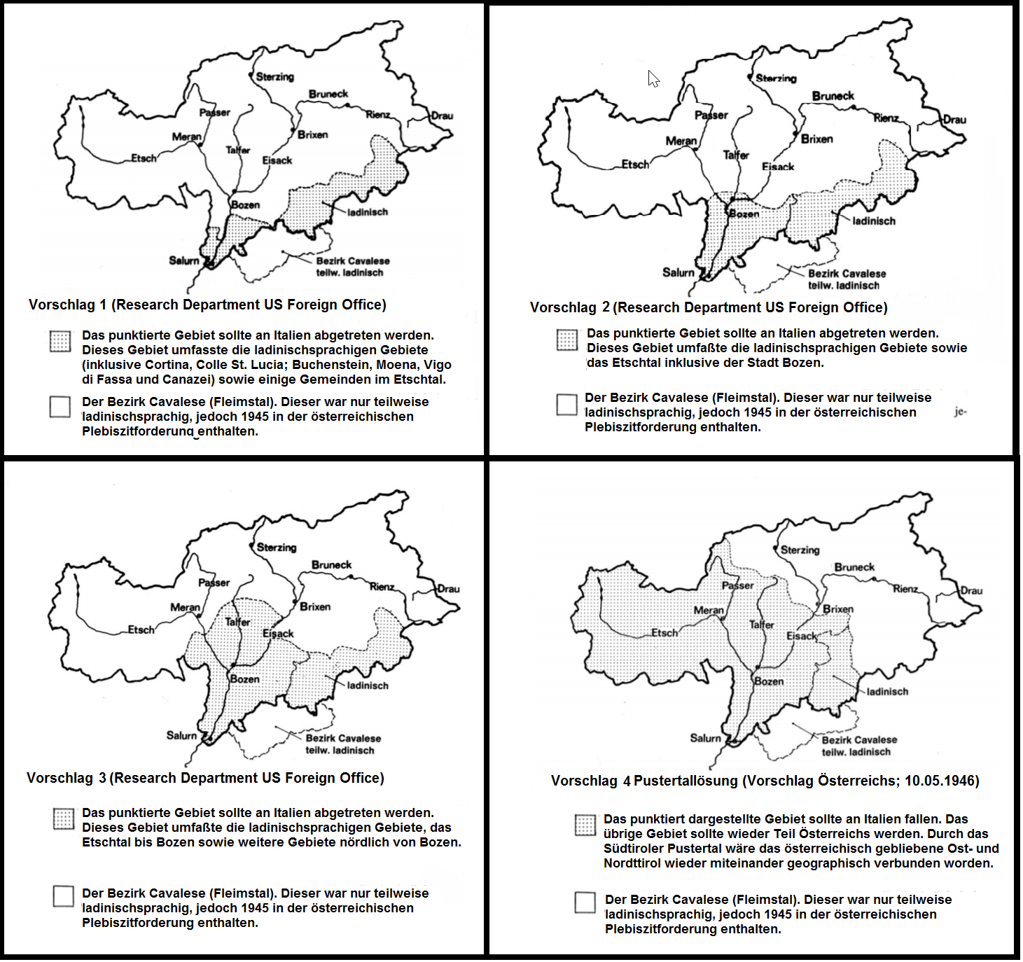 Partition Plans for South Tyrol by the US- and the Austrian Foreign Office in the years 1945 to 1946.